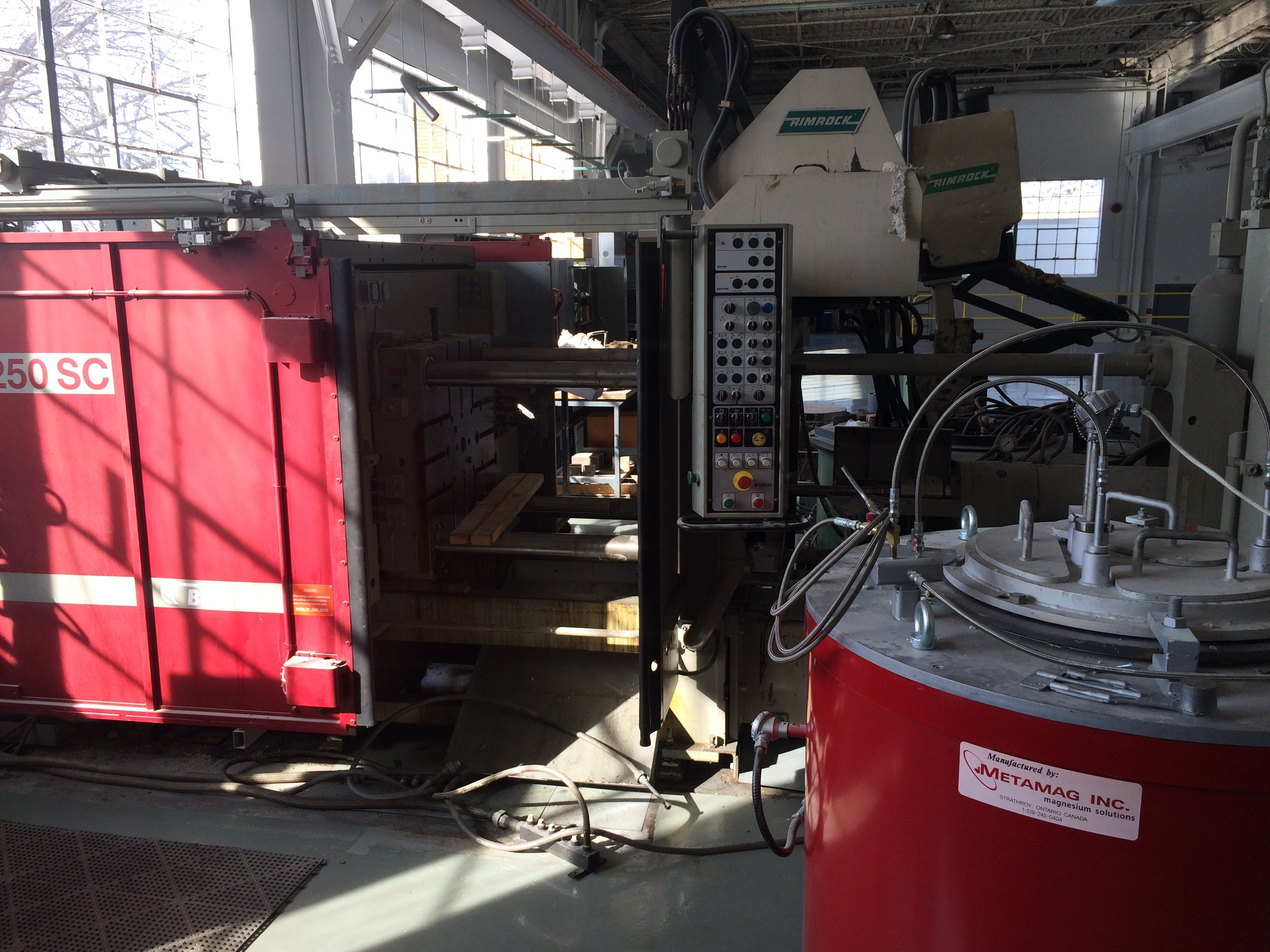 Buhler die casting system